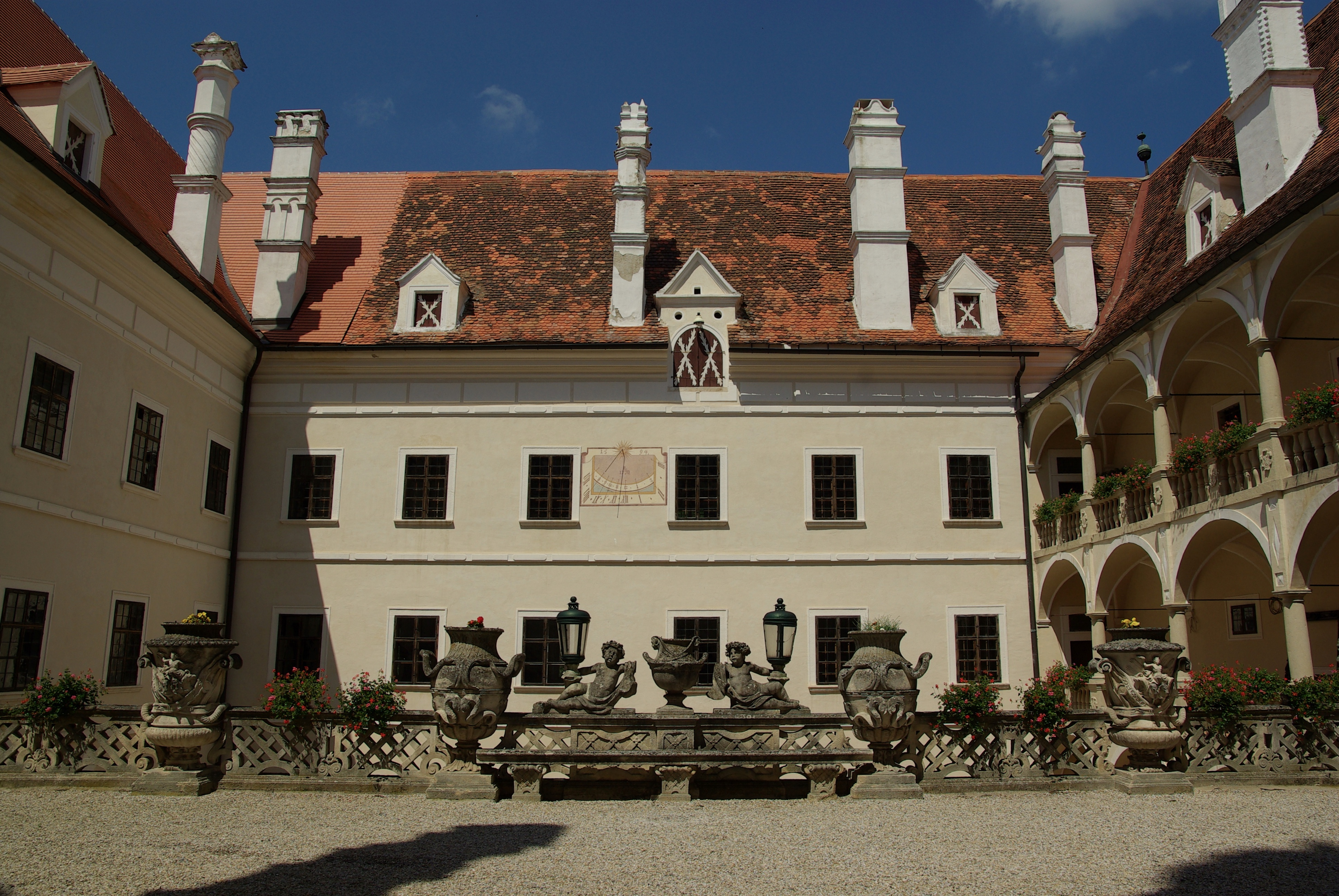 Schloss Greillenstein in Lower Austria. Inner courtyard.